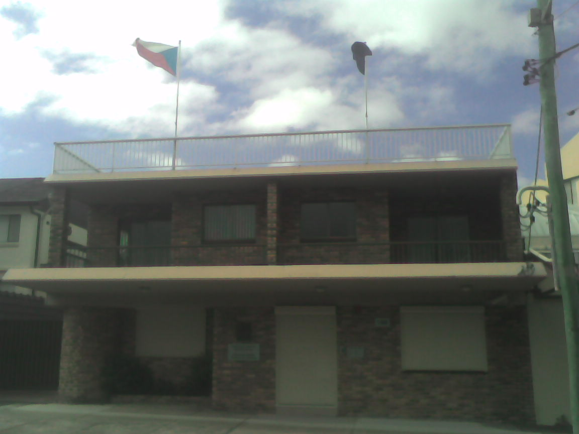 Czech Consulate General in Sydney (Bondi)